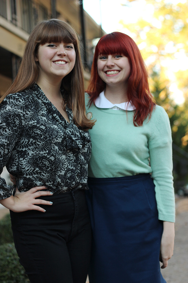 Business Casual dress